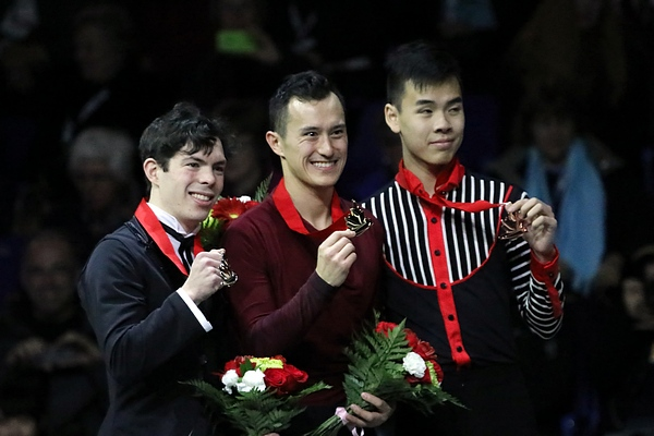 Keegan Messing, Patrick Chan and Nam Nguyen at the 2018 Canadian National Figure Skating Championships